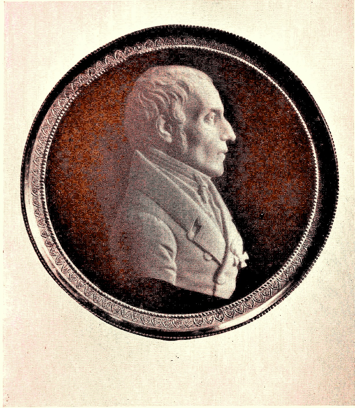 Picture taken by unnamed photographer of a medallion from the city library Elbing. Only known portrait of Süvern, first published in 1935.